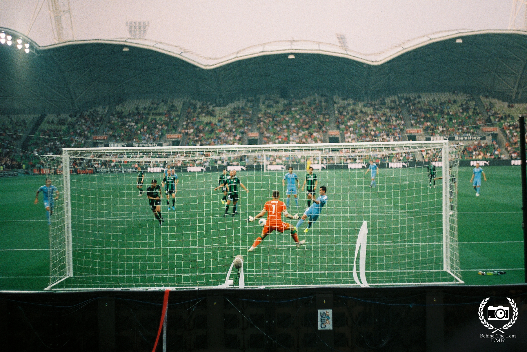 Luna volley's home against Western United 03.01.20